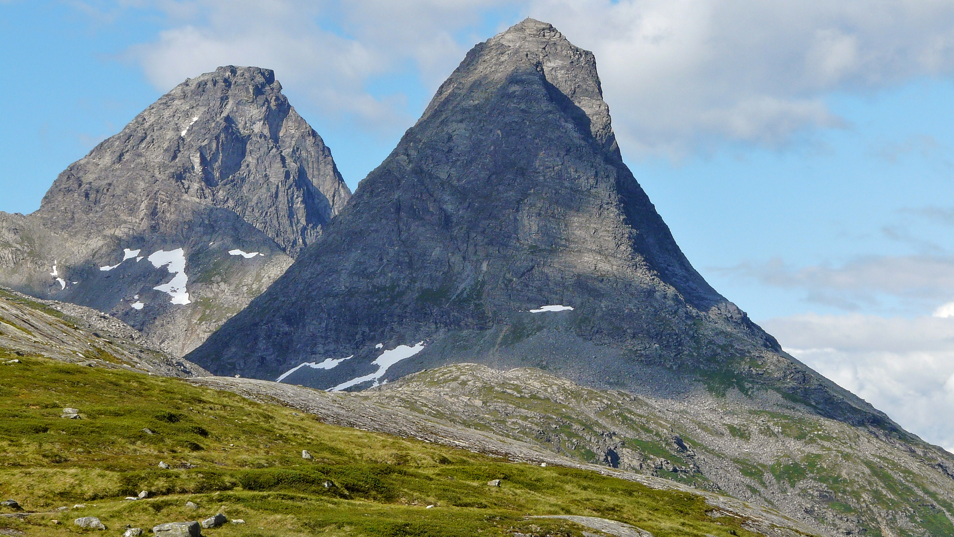 Kongen (1,614 m) and Bispen (1,462 m) as seen from the south at Trollstigheimen by the Riksvei 63 road in 2008 August.